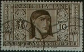 serie società pro-DanteAlighieri - francobolli del Regno d'Italia - 1932 - Giovanni Boccaccio - stamps of the kingdom of Italy